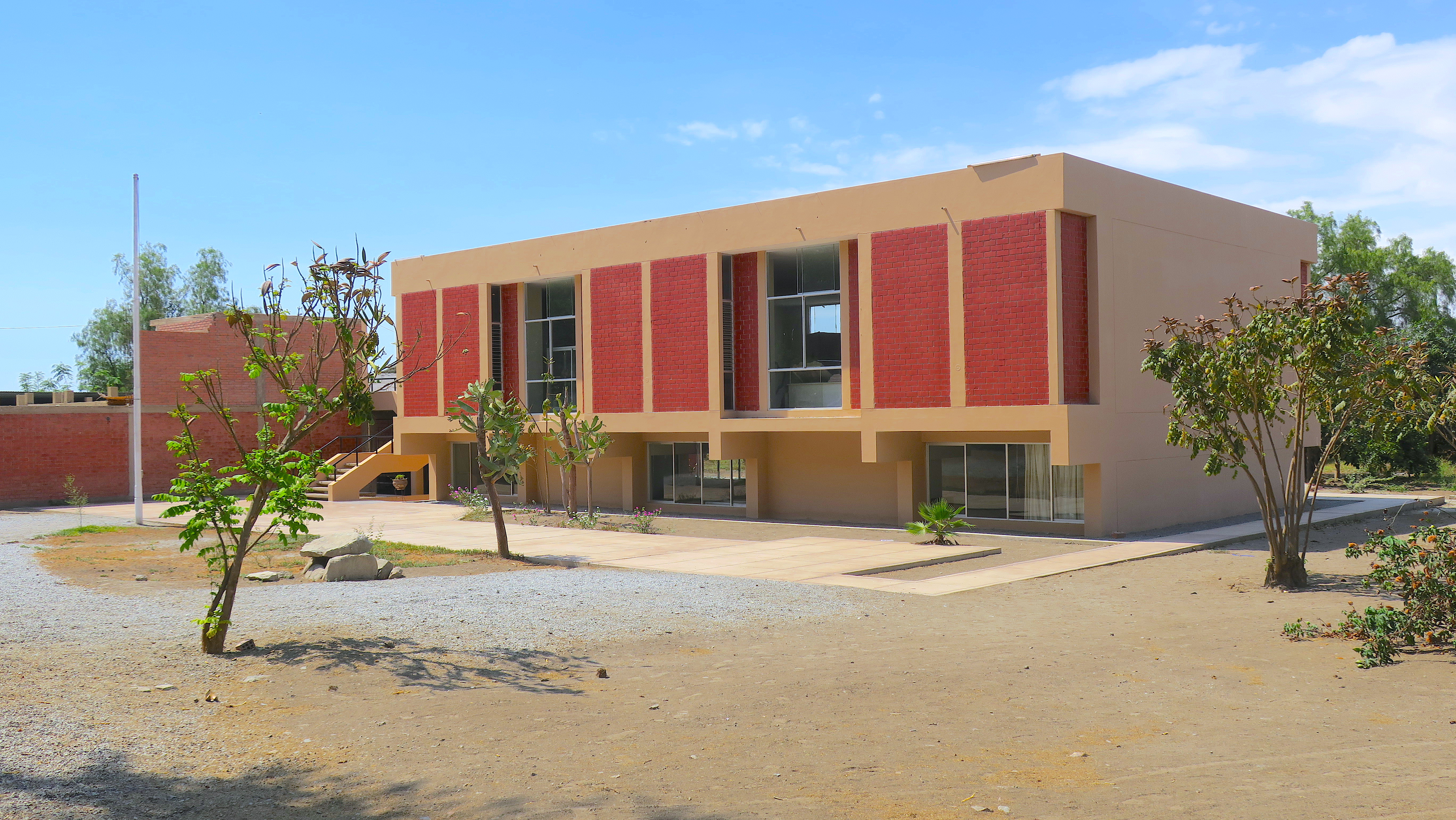 Cerro Sechín - Casma Province, Ancash, Peru; dating to 1600BC.